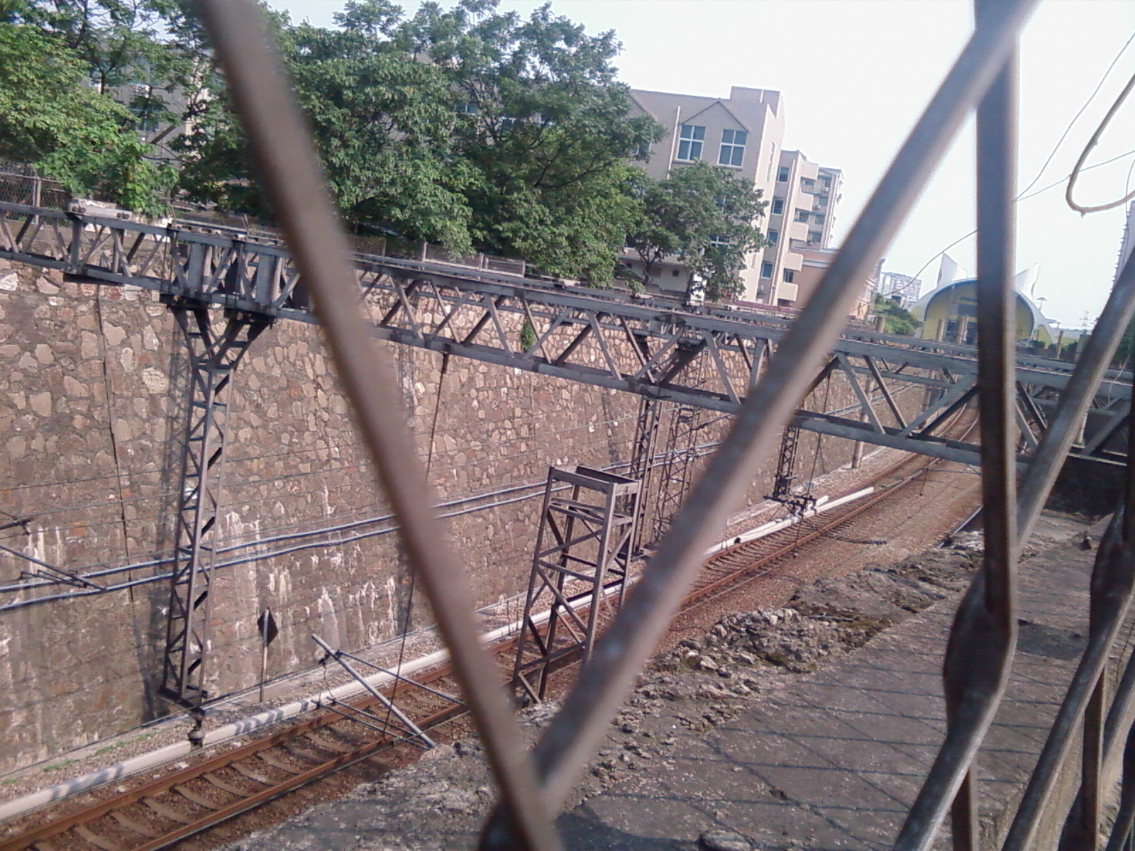 Overhead Lines near Kengkou Station, Line 1, Guangzhou Metro